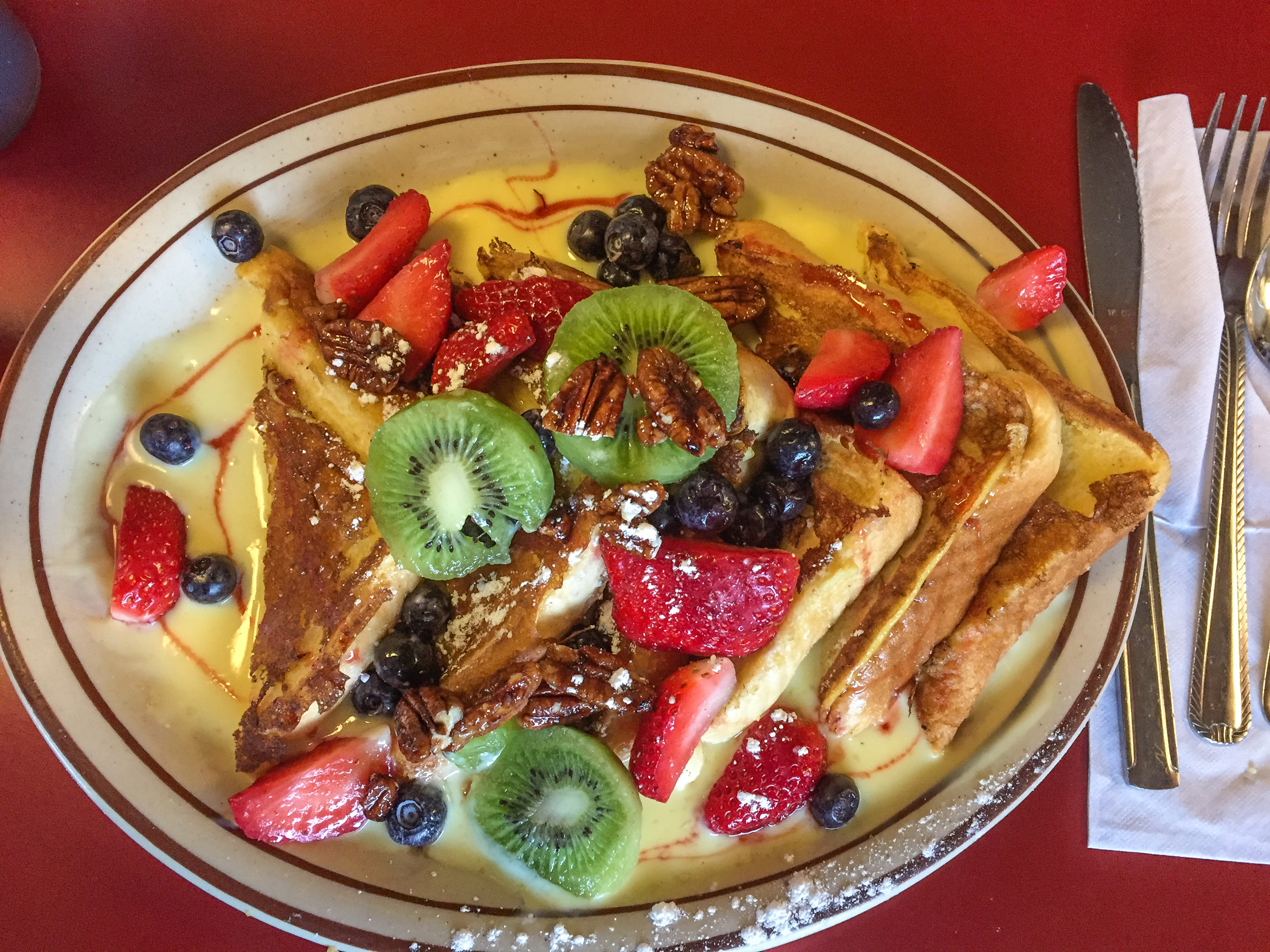 Custard French Toast from the Modern Diner, Pawtucket